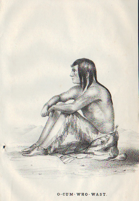 Yellow Wolf of the Cheyenne, from an 1848 engraving of a painting by James W. Albert. The book it was published in was "A Report and Map of the Examination of New Mexico", Washington: Wendell & Van Benthuysen, 1848.